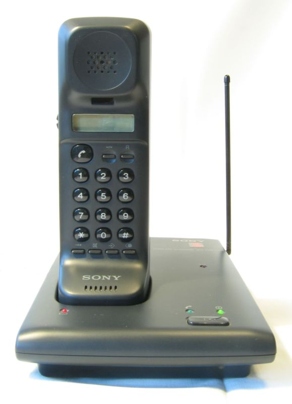 Cordless telephone Sony SPP-E100 with European standard CT1+, produced in 1991